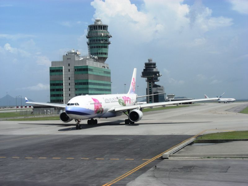 Hong Kong International Airport is the principal airport in Hong Kong. It is colloquially known as Chek Lap Kok Airport, due to the fact that it was built on the island of Chek Lap Kok by land reclamation. It opened for commercial operations in 1998, and is an important regional trans-shipment centre, passenger hub and gateway for destinations in China, East Asia and Southeast Asia. Despite its relatively short history, the airport has won several notable international "Best Airport" awards, although it lost out to Singapore Changi Airport in the Skytrax "Best airport" award in 2006, having won it from 2001-2005. It is currently given a rating of five stars by Skytrax's airport grading exercise along with two other airports. The airport operates around-the-clock and is capable of handling 45 million passengers and three million tonnes of cargo a year. It is the primary hub for Cathay Pacific and Dragonair, along with several other smaller airlines, including Hong Kong Express Airways, Hong Kong Airlines, Oasis Hong Kong Airlines and Air Hong Kong.